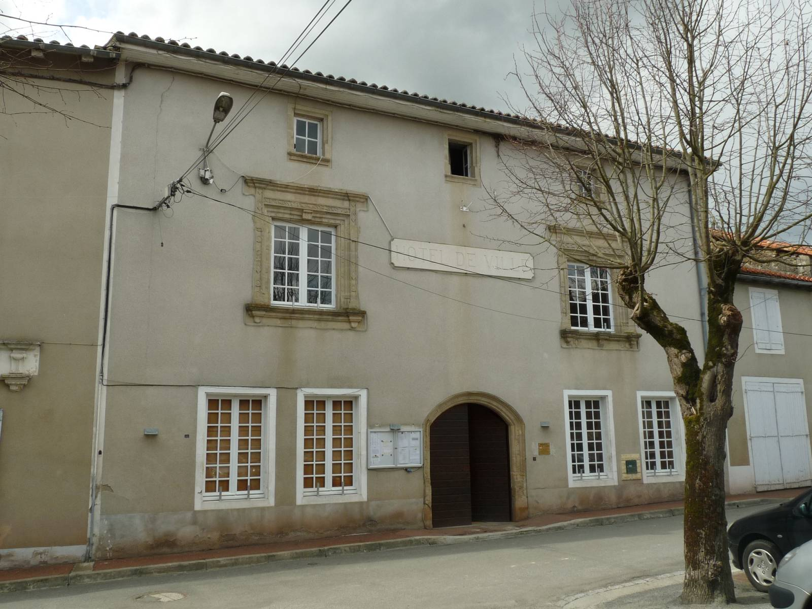 town hall